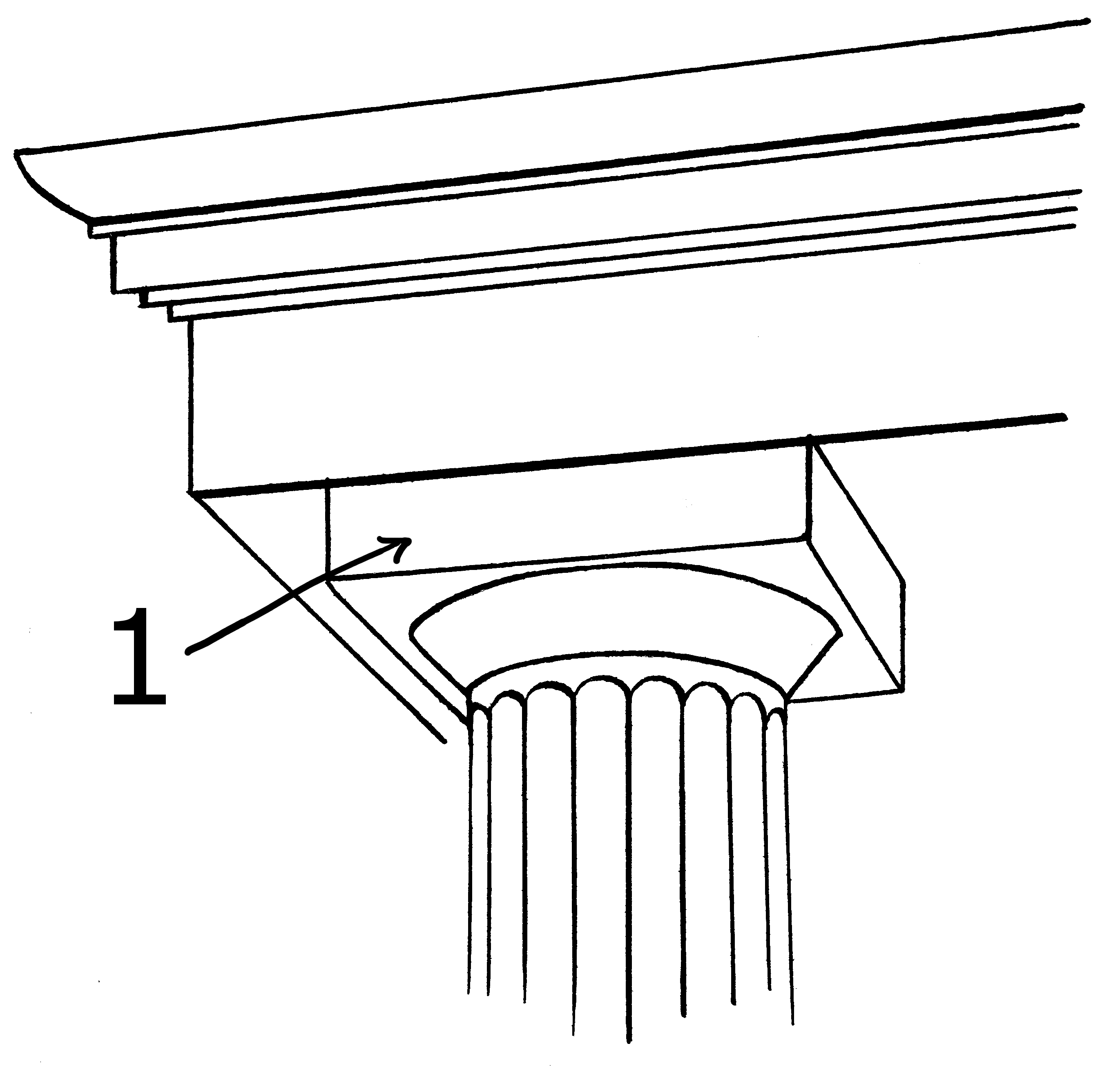 Line art drawing of an abacus, the flat slab forming the uppermost member or division of the capital of a column above the bell.